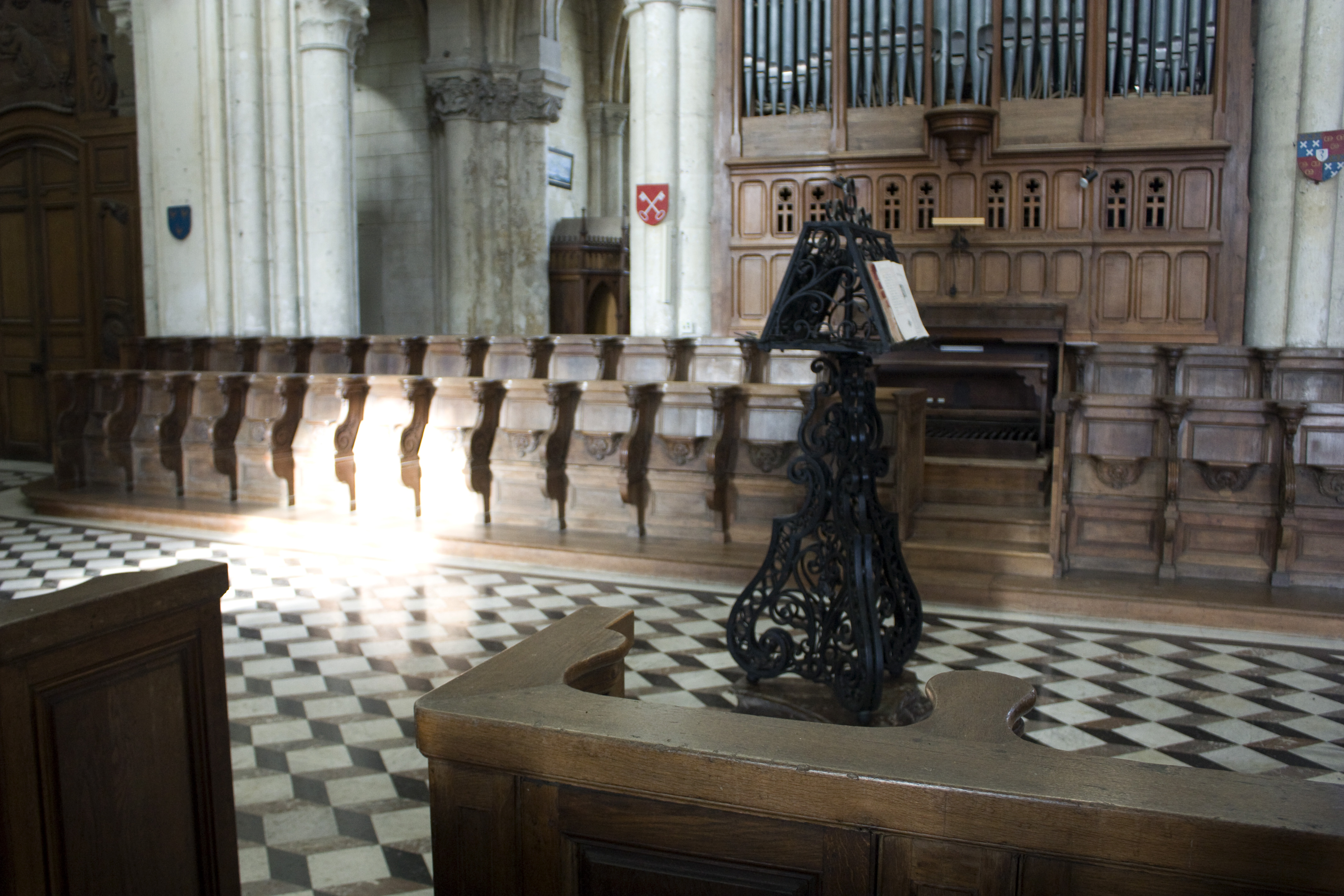 Lectern, second half of the 18th century.